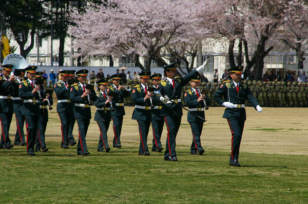 Taken by los688,6-Apr-2008,JGSDF Camp-Narashino.JGSDF Central band.PD-self. ja:2008年4月6日、投稿者撮影。陸上自衛隊習志野駐屯地創立57周年記念行事。中央音楽隊。